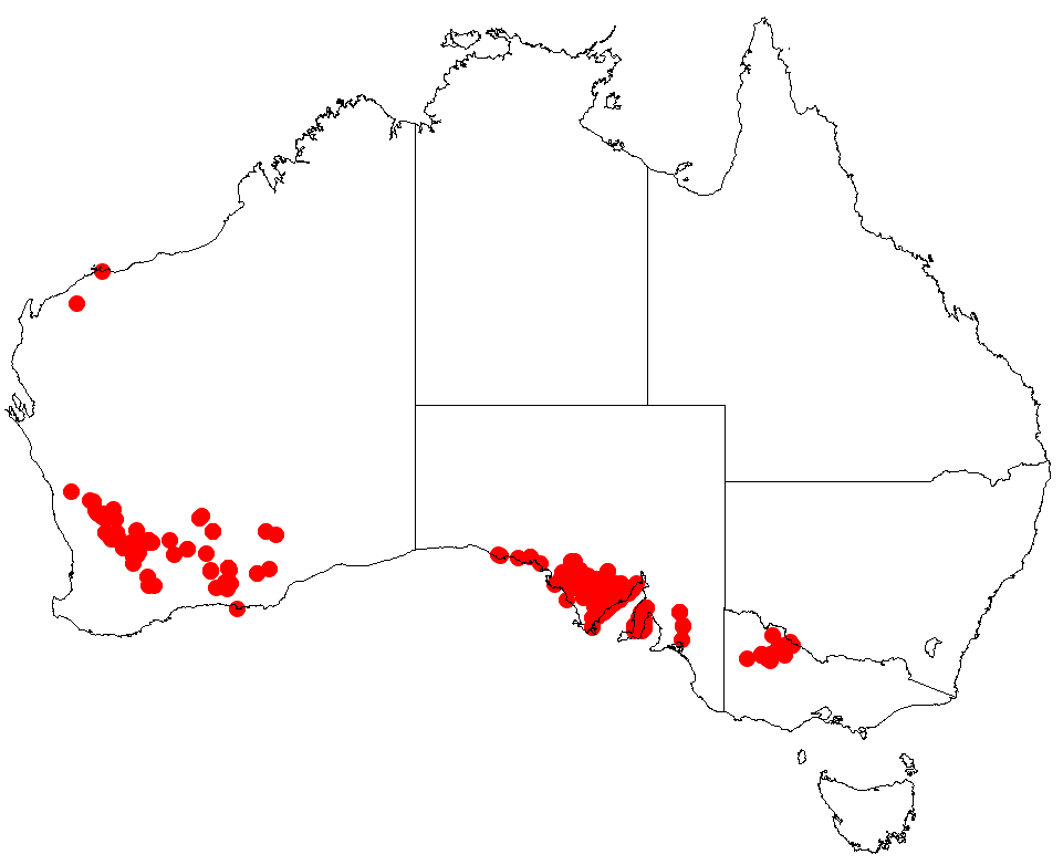 Acacia ancistrophylla Occurrence data from Australasia Virtual Herbarium downloaded from on 8 December 2018